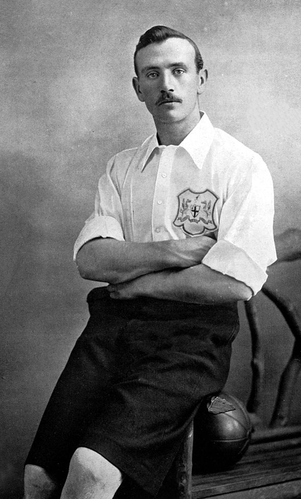 Sport/Football, circa 1896, C,McGahey, who played for the London Association and represented Middlesex, he was also a good cricketer playing at Essex